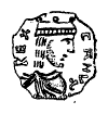 Bracteate from the reign of Canute V of Denmark. Picture from the swedish encyclopedia Nordisk familjebok (1911).